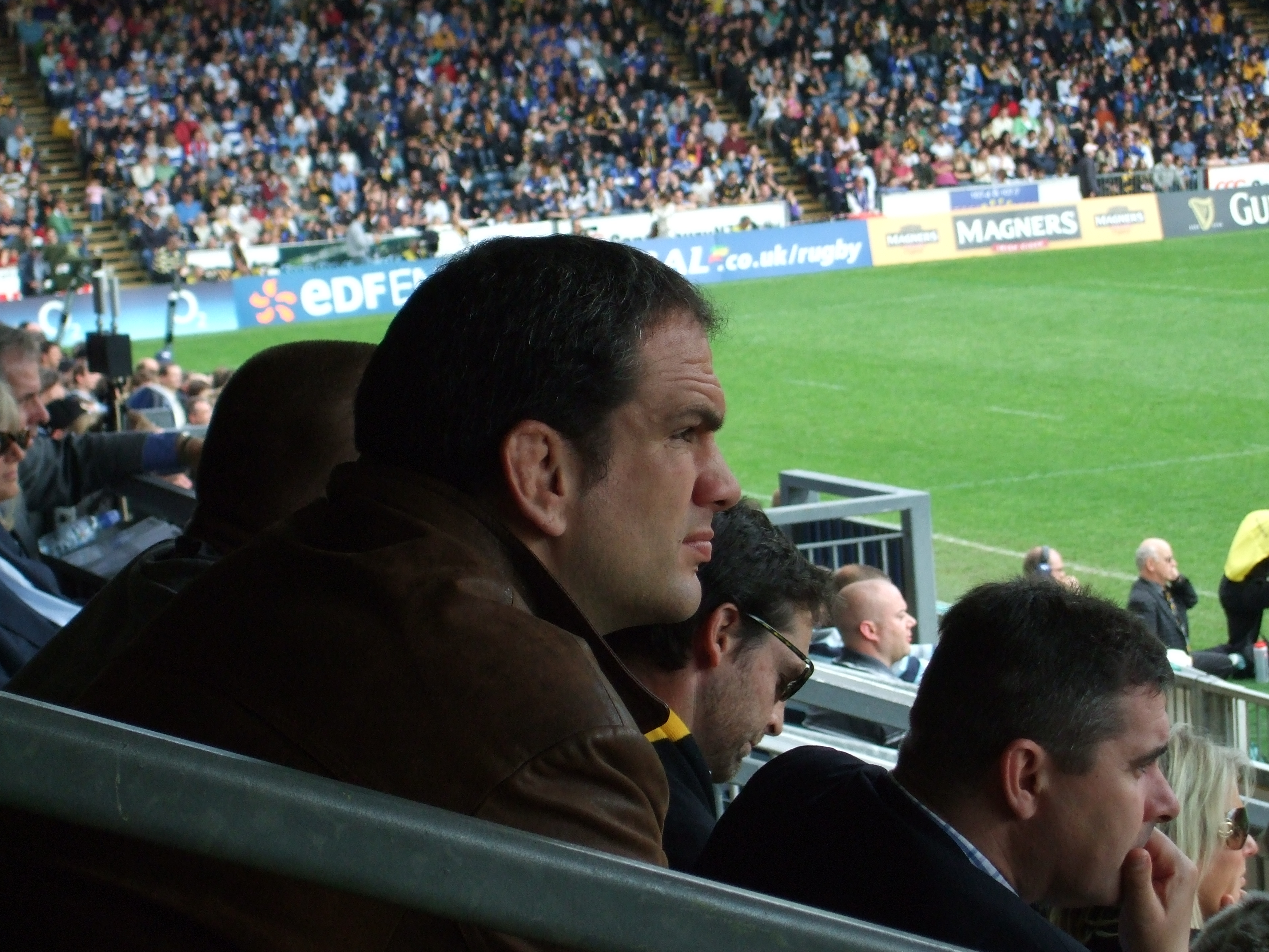 Martin Johnson watching Wasps vs Bath. Lawrence Dallaglio's last competitive game at Adams Park was the Guinness Premiership Semi Final against Bath. Wasps won 21-10 and go on to face Leicester in the final. Leicester defeated Gloucester.